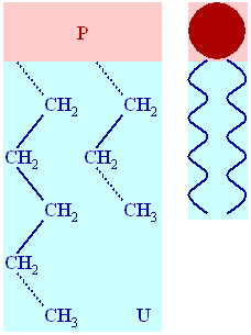 moving over from nupedia